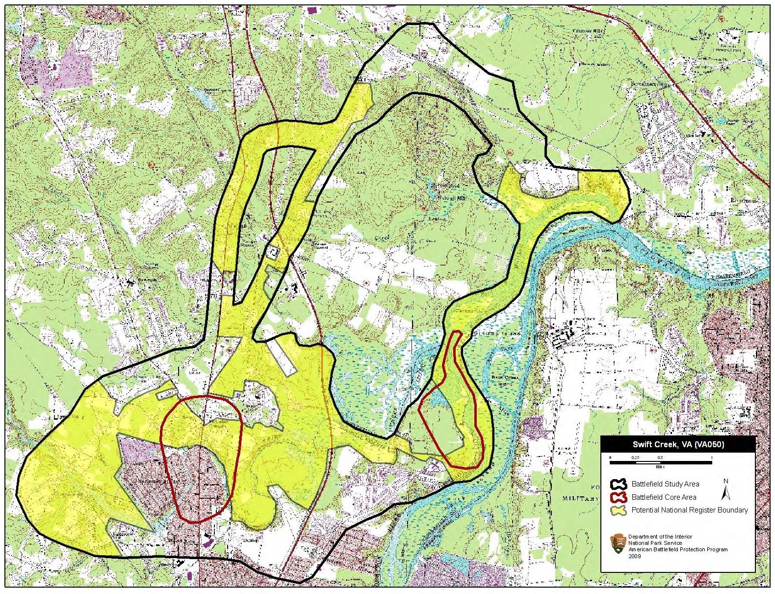 Map of battlefield core and study areas. The revised Study Area includes the Union approaches on land and water, and a Core Area representing the gunboat attack against Fort Clifton.